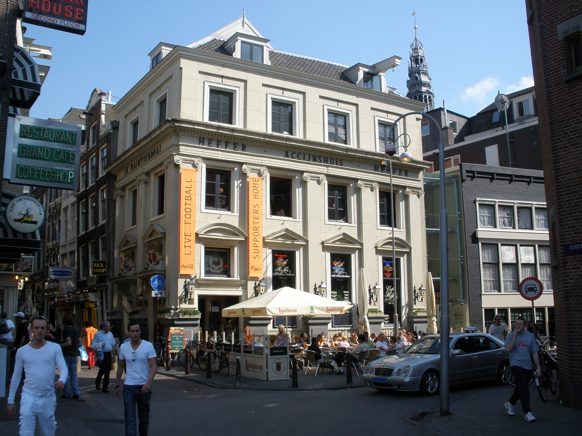 The Accijnshuis in the Oudebrugstreeg in Amsterdam, a 17th-Century building designed by either Jacob van Campen or Pieter de Keyser. In the background, the spire of the Oude Kerk is visible. Note also the "coffeeshop" The Grasshopper on the left.